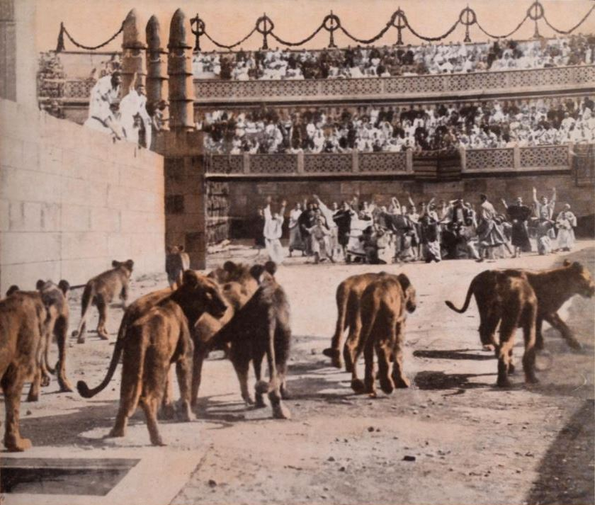 Tinted still used in an American advertisement for the Italian epic film Quo Vadis (1913), from an insert after page 10 of the August 27, 1921 Exhibitors Herald.